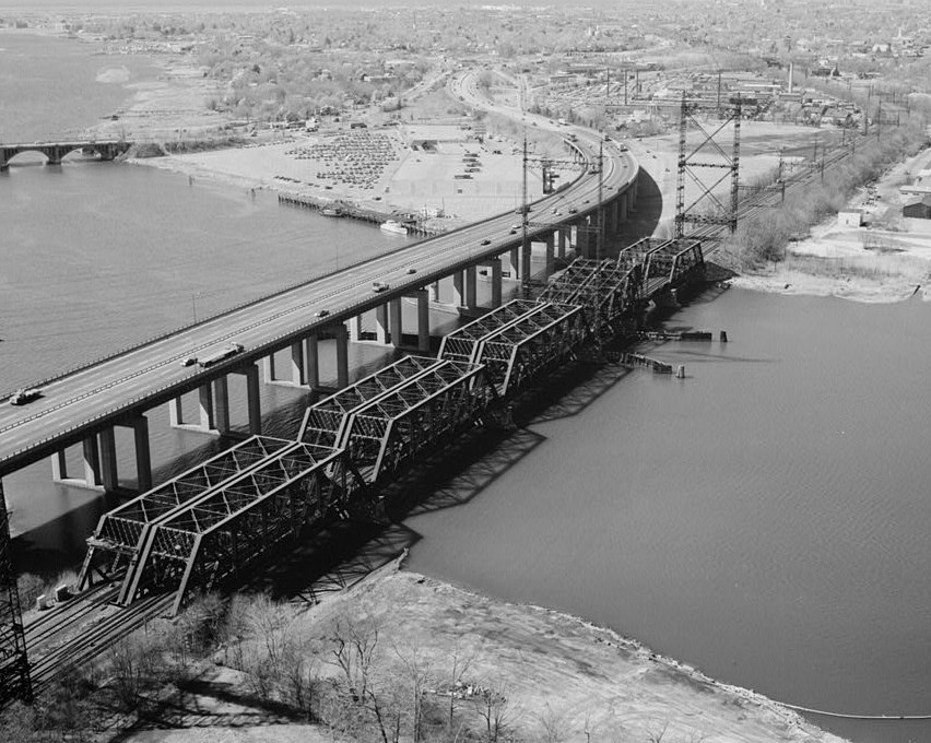 Housatonic River Railroad Bridge, Stratford, Fairfield County, Connecticut). Cropped photo.